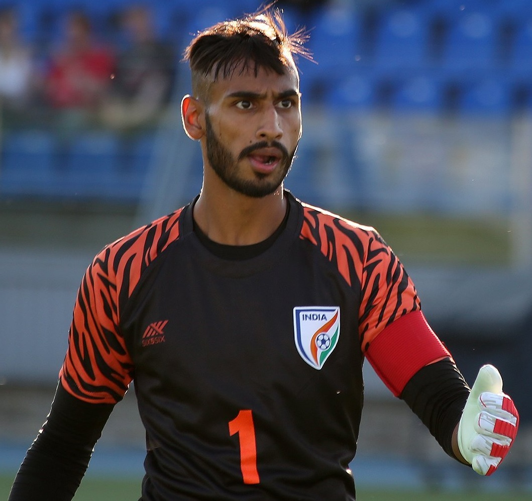 Prabhsukhan Singh Gill with India U19 in a 2019 Granatkin Memorial match against Russia U18.